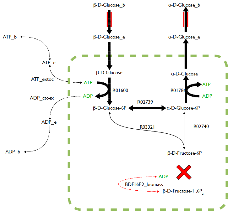 FBA on a metabolic network after a lethal gene deletion.